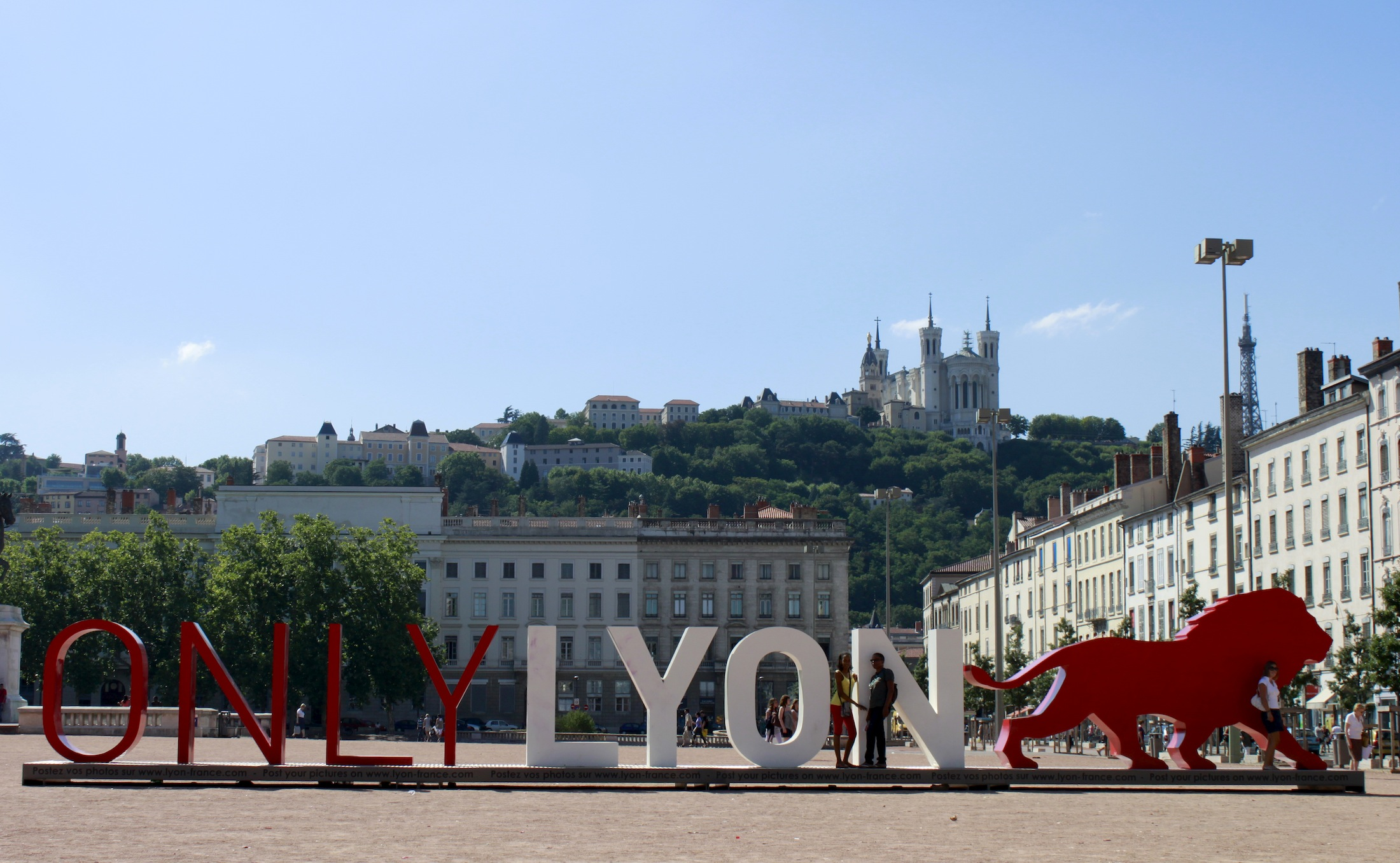 Only Lyon installation, Place Bellecour, Lyon, France